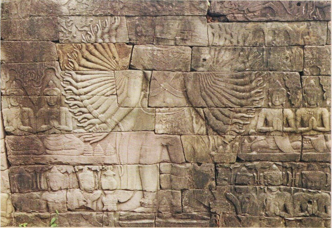 Prasat Banteay Chmar ភាសាខ្មែរ: ប្រាសាទបន្ទាយឆ្មា